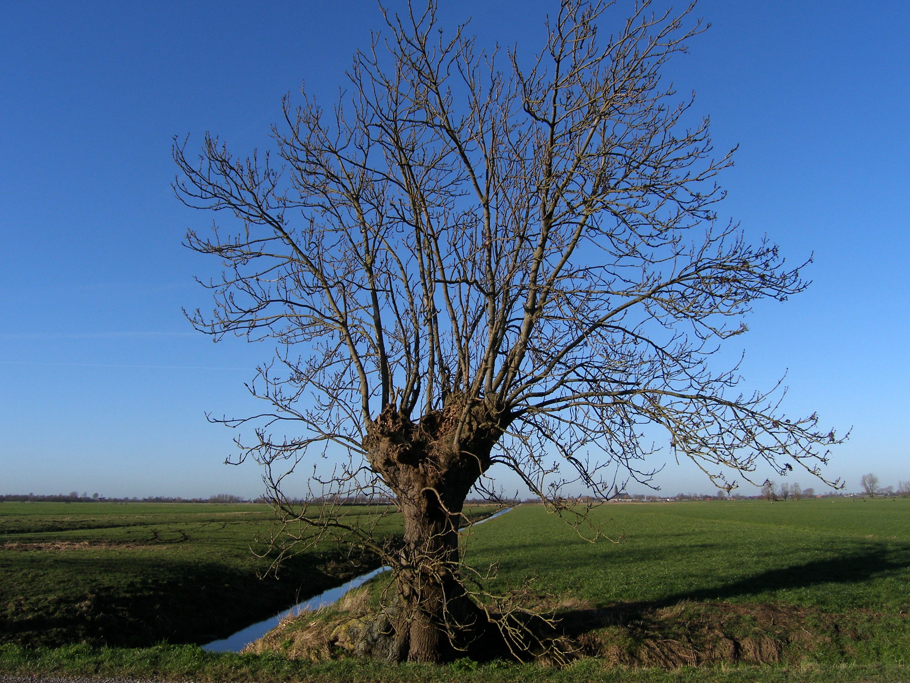 Pollard willow in Polder Willige Langerak, which is part of Lopikerwaard (Utrecht).